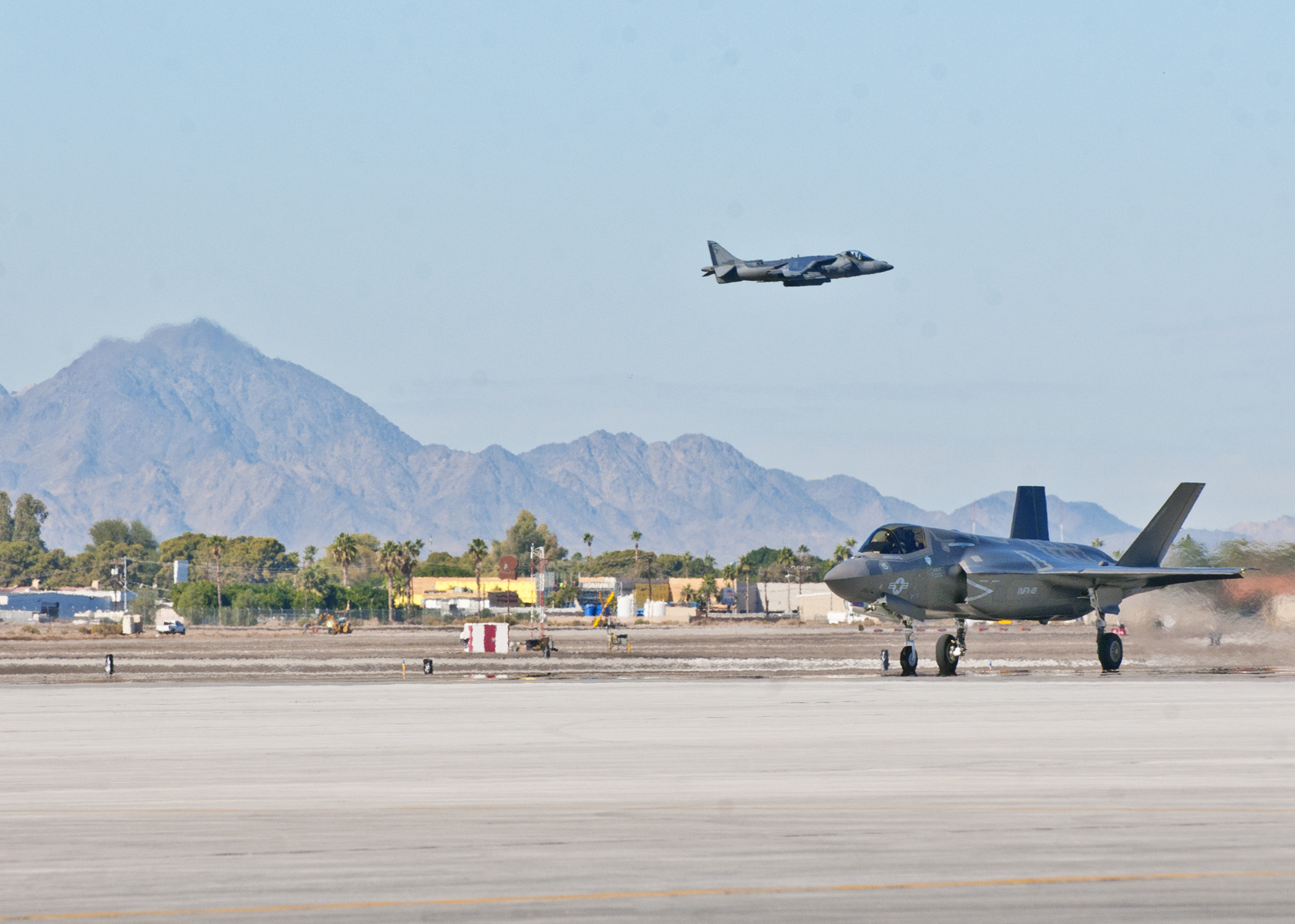 Third Marine Aircraft Wing's first F-35B taxis in Fri., Nov. 16, 2012 at approximately 1 p.m. on the Marine Corps Air Station Yuma flightline. Piloted by F-35 pilot instructor Maj. A. C. Liberman, today's arrival highlights next week's official re-designation of Marine All Weather Fighter Attack Squadron 121, an F/A-18 Hornet Squadron, as the world's first operational F-35 squadron at MCAS Yuma. The F-35B accomplishes the multi-role, fifth-generation capabilities needed across the full spectrum of military operations to deter potential adversaries and protect our nation and its interests. Known as the F-35 Lightning II, the F-35B will eventually replace the Corps' aging legacy tactical fleet of AV-8B Harriers, F/A-18 Hornets and EA-6B Prowlers.